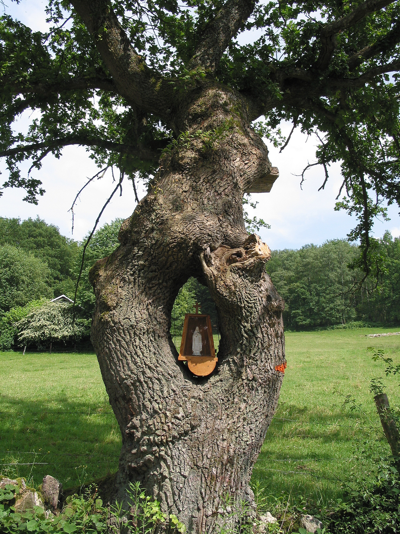 La Gleize (Belgium), the strange pedonculate oak and his chapel on the Les Brieux knoll.